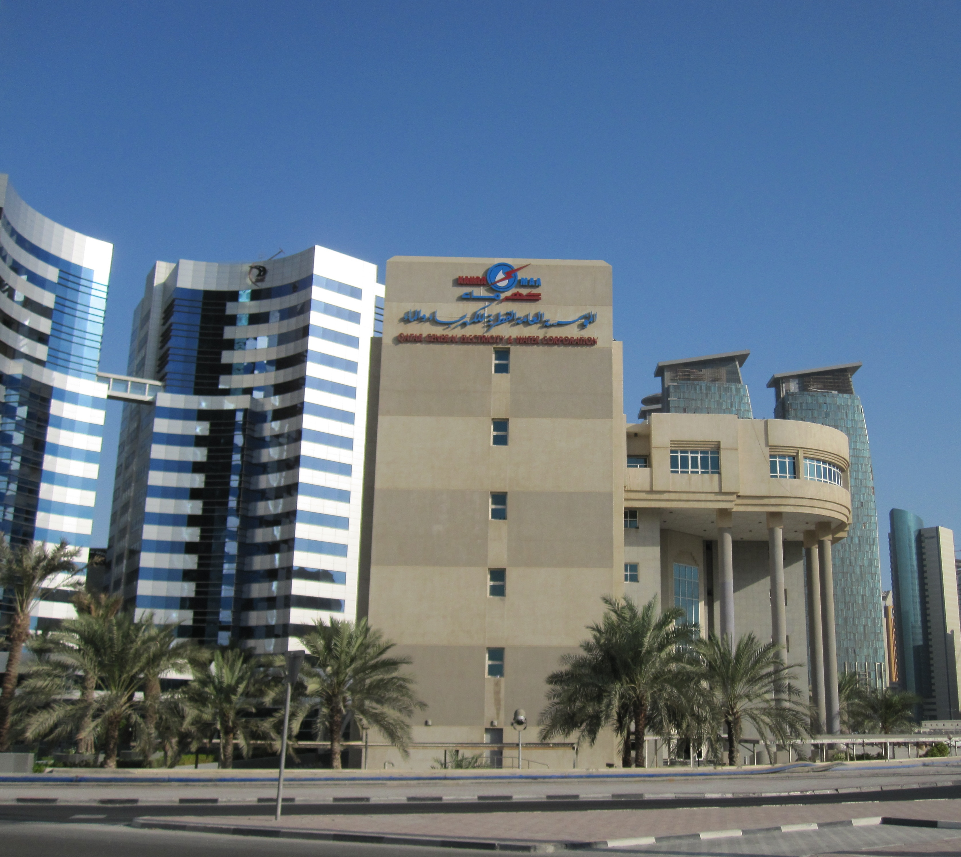 Kahra Maa (Qatar General electricity and water corporation) office, Doha